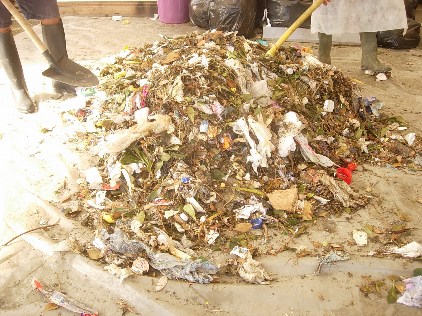 Mixed MSW waste before sampling